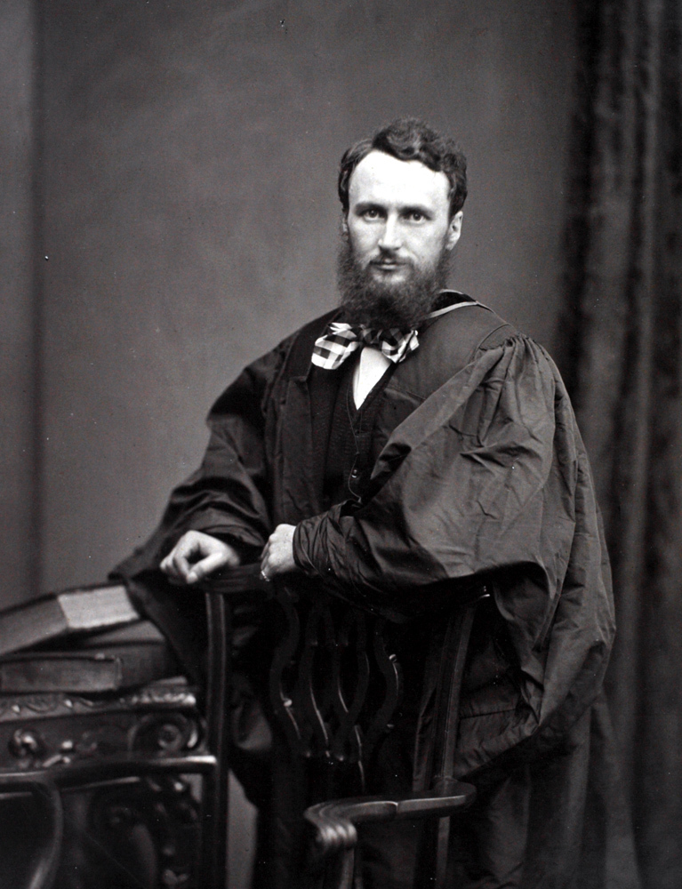 1871 Prof John Young 1835-1902 of Glasgow - by Thomas Annan - also in NPG